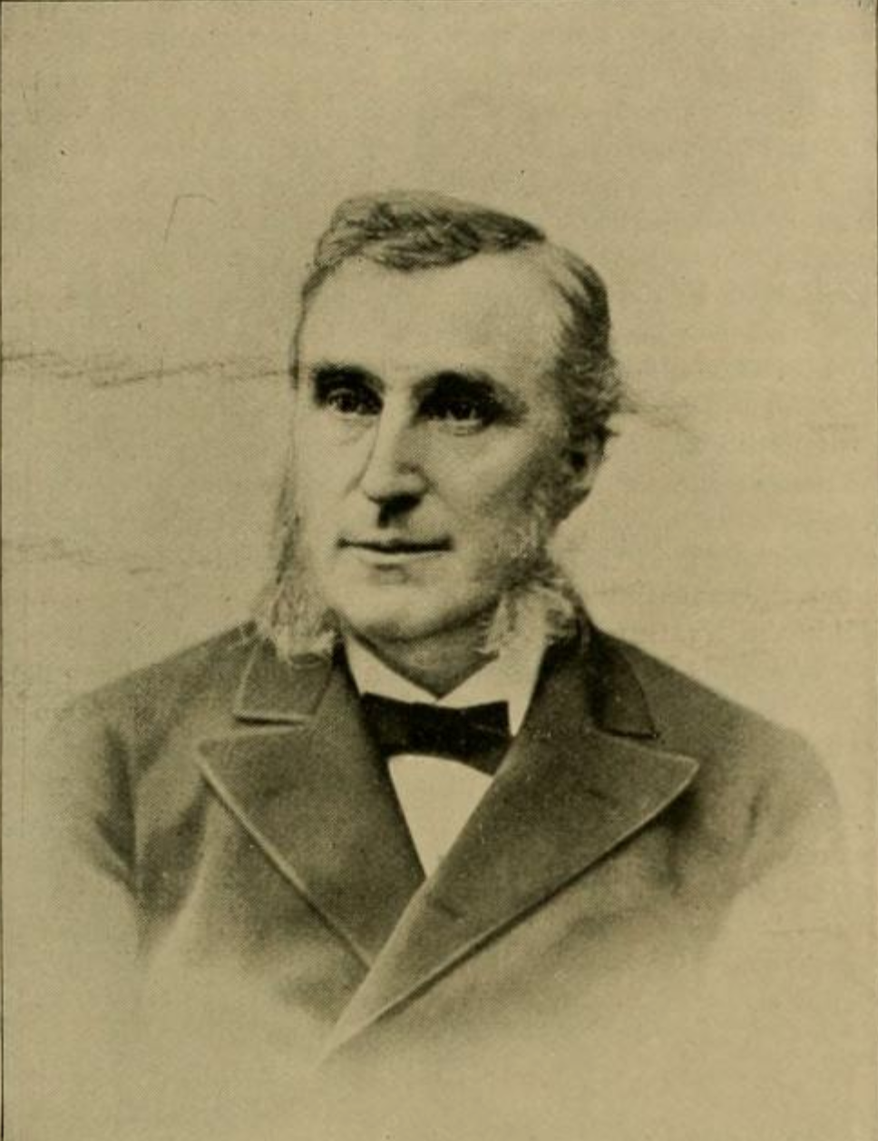 Portrait of Dr. William A. M. Culbert by Newburgh photographer Whiddit.